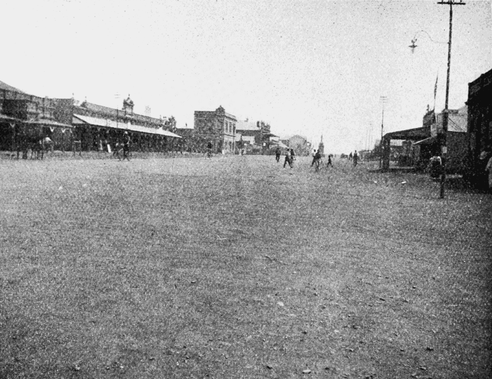 Main street of Bulawayo